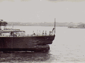 The damage the HMS Glowworm suffered after colliding with HMS Grenade.